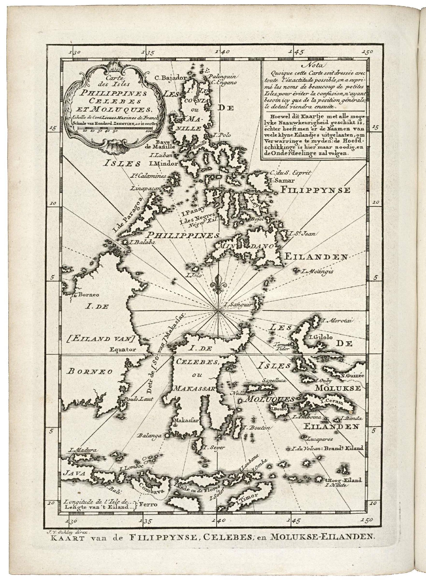 Map of Celebes, the Moluccas and the Philippines. Kaart van de Fillippynse, Celebes, en Molukse-Eilanden. Carte des Isles Philippines Celebes et Moluques.